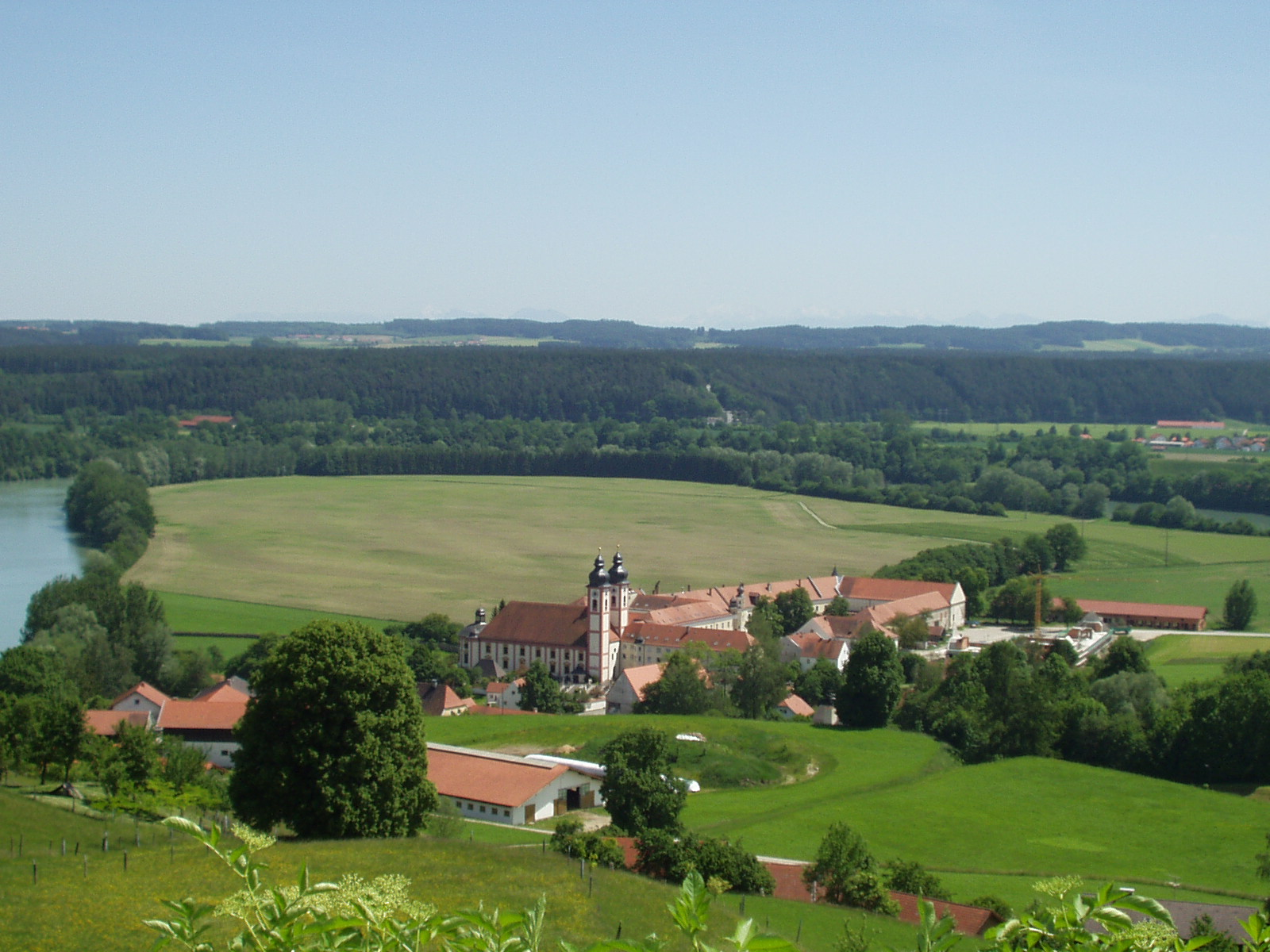 Au am Inn, general view of the Francisan convent (former monastery of Canons Regular of St Augustine) from north-west.